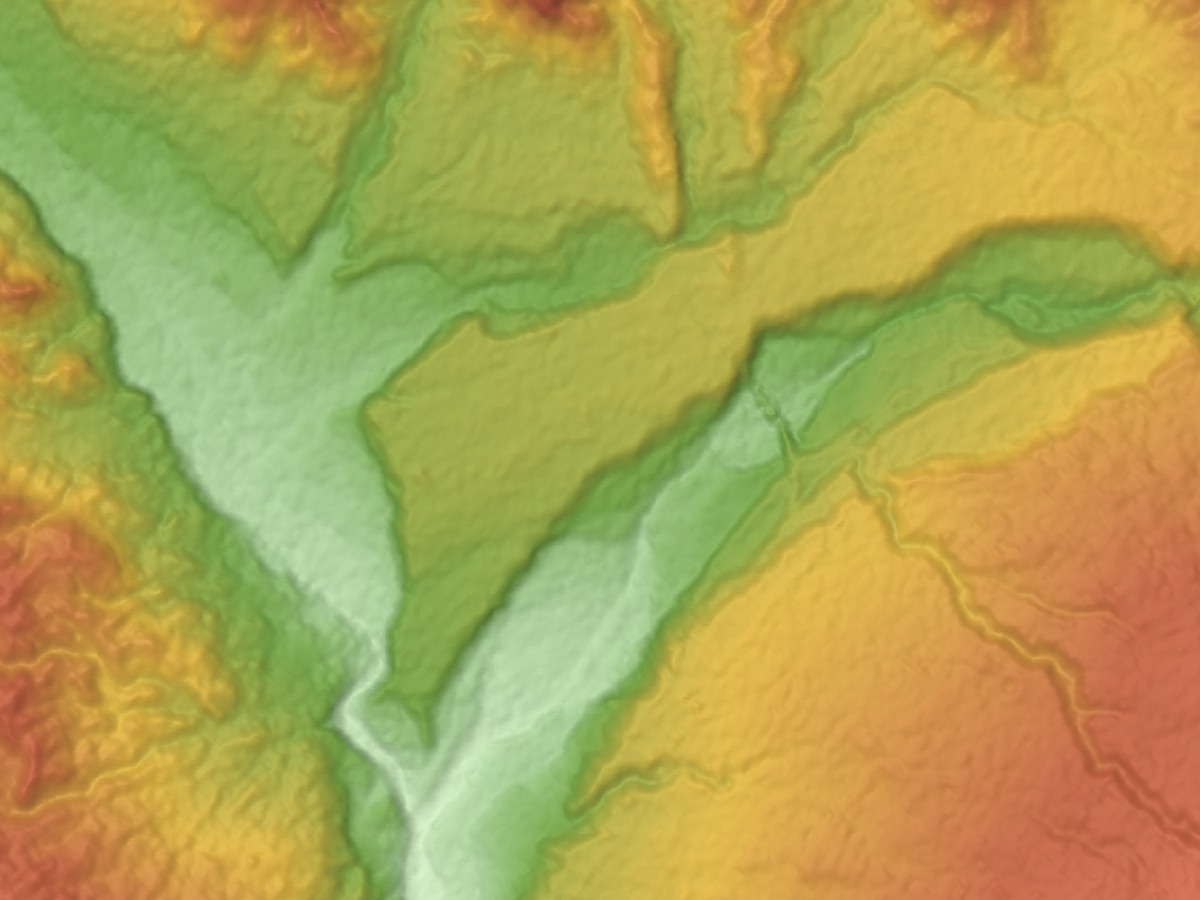 River terraces in Numata, Gunma Prefecture, Honshu, Japan.